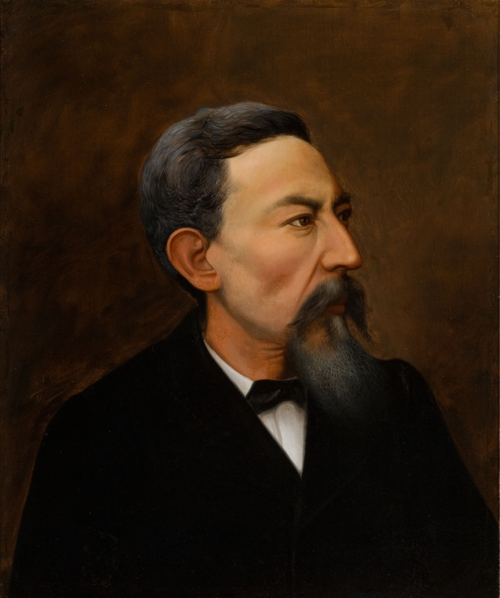 Color portrait of Lázaro Garza Ayala (1830-1913), governor of Nuevo León, Mexico. Oil on canvas (76.5 x 66.5 cm)